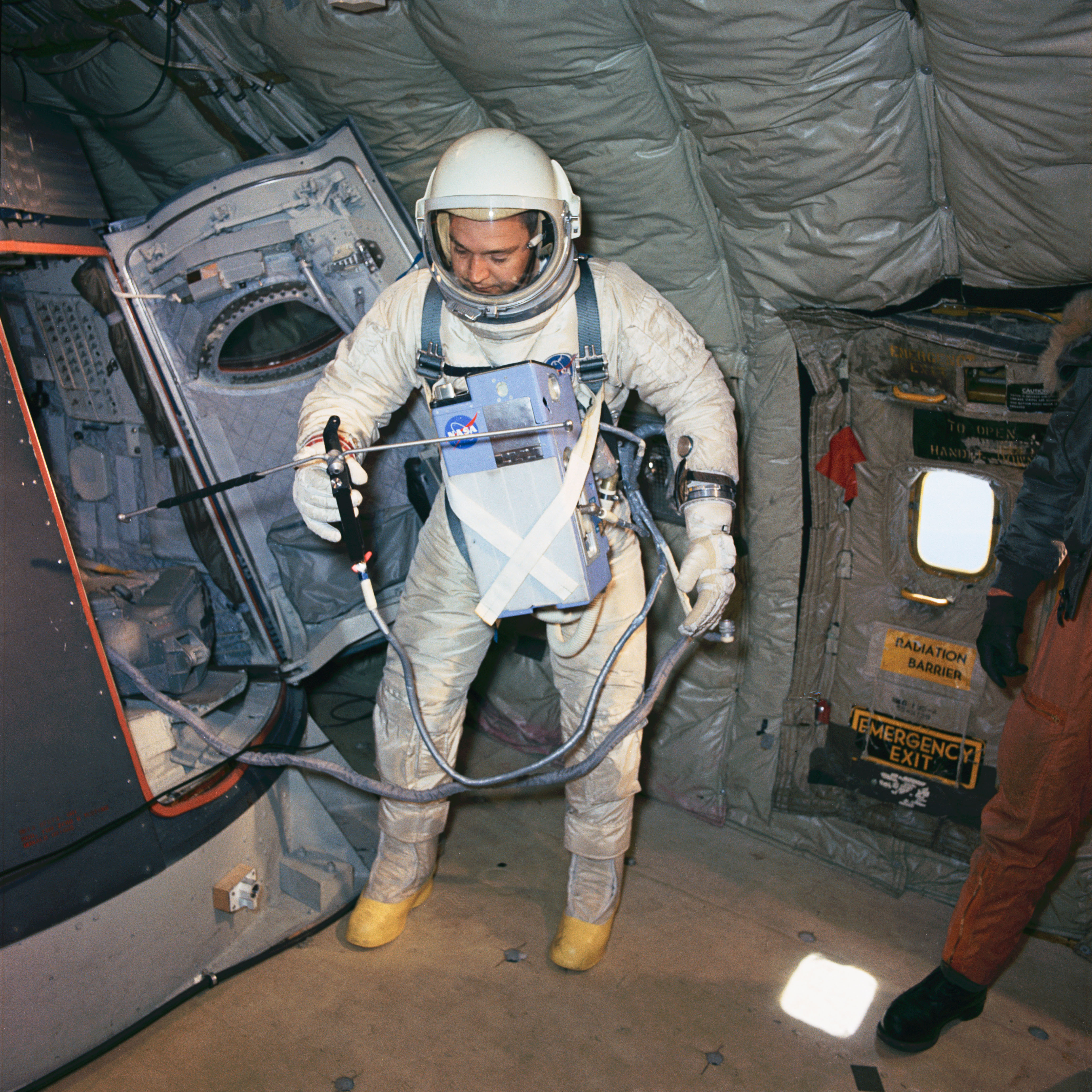 NASA astronaut Clifton C. Williams Jr., backup pilot for the Gemini 10 Earth orbital mission, during zero-gravity egress training aboard a KC-135 aircraft. Williams was later killed in the crash of a T-38 jet trainer. NASA photo S66-28636 in public domain.